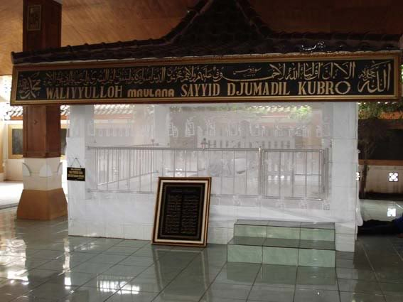 Makam Syekh Jumadil Kubro